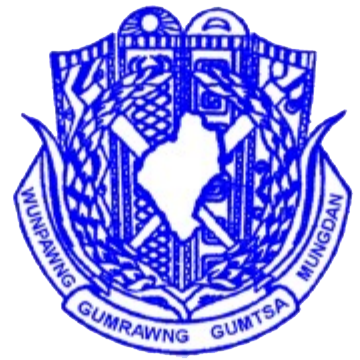 Kachin Independence Organisation (KIO) coat of arms မြန်မာဘာသာ: ကချင်ပြည် လွတ်မြောက်ရေး အဖွဲ့ တံဆိပ် Slogan says "Wunpawng Gumrawng Gumtsa Mungdan"